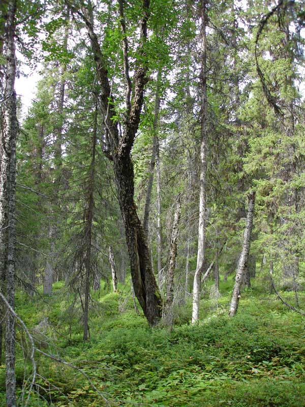 Salix caprea in boreal coniferous forest. Jokkmokk in northern Sweden, 2007.